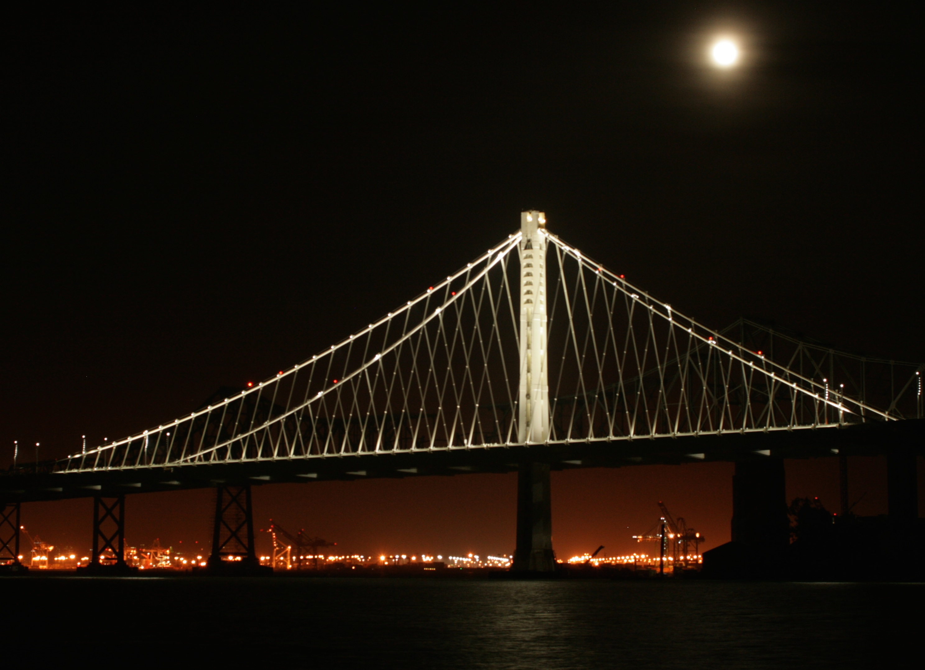 April 14th, 2014, about 1/2 hour before the lunar eclipse, the new eastern span of the San Francisco-Oakland Bay Bridge displays its decorative lighting.